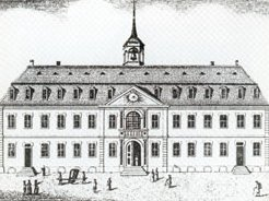 Borromaeus-Hospital in Mannheim